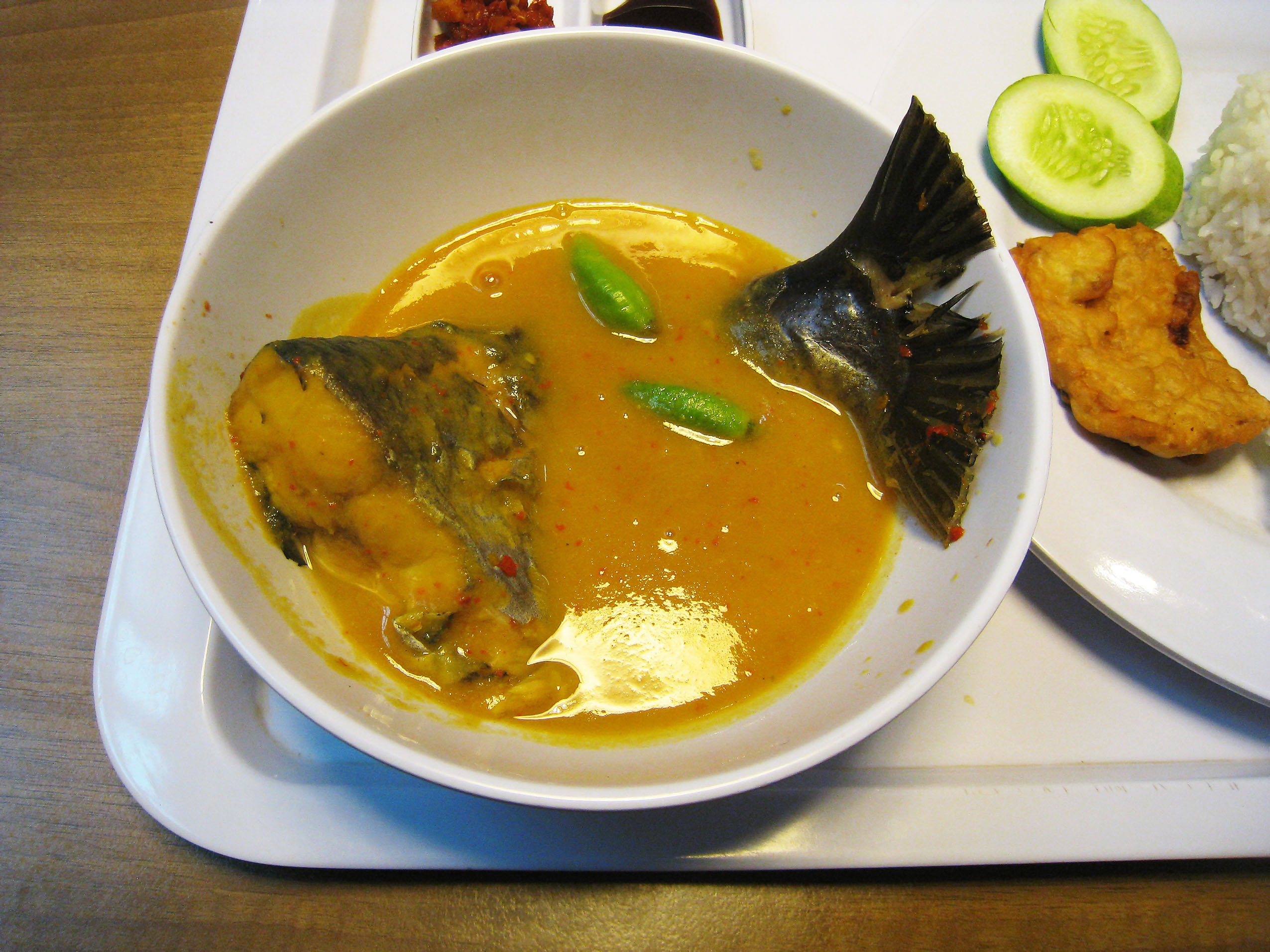 Tempoyak Ikan Patin, pangasius catfish served in sweet and spicy tempoyak sauce, a fermented durian-based sauce. Specialty of Palembang city, South Sumatra. Served at a Palembang food stall at Food Colony Foodcourt, Atrium Senen Plaza, Central Jakarta, Indonesia.